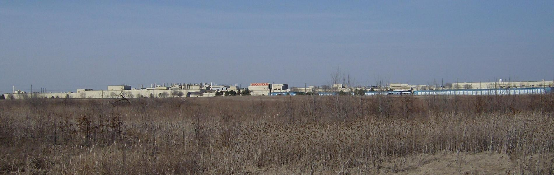 Marysville Auto Plant, Honda of America, in Allen Township, Union County, Ohio, northwest of the city of Marysville. Picture taken from U.S. Route 33.